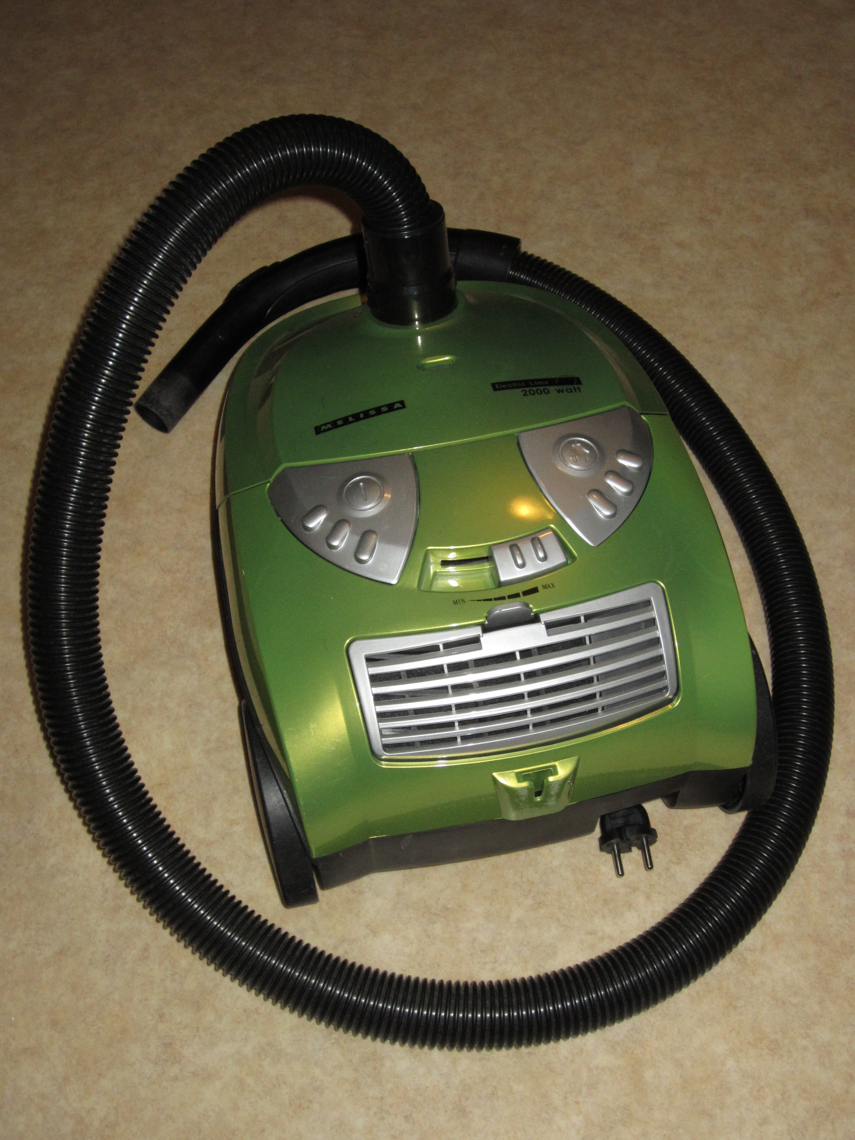 Vacuum cleaner "Electric Lime" from Melissa (Model. no. 640-143)